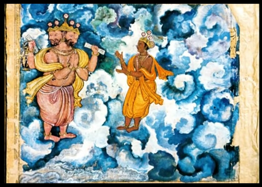 From Jaipur Ramayana of akbar